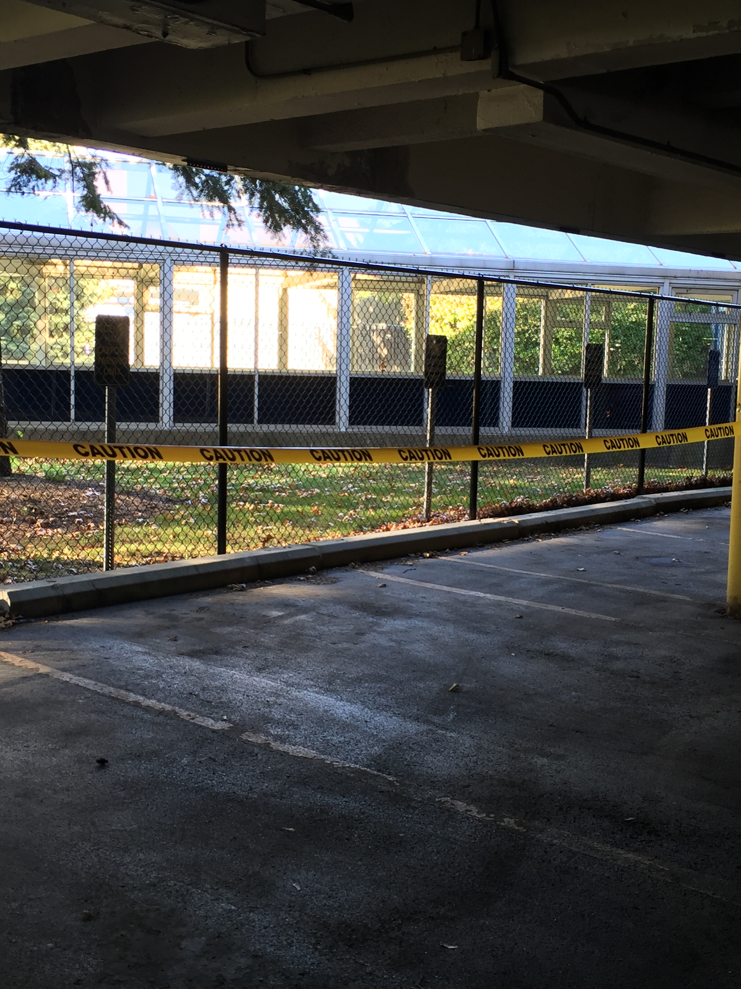 carpool spots